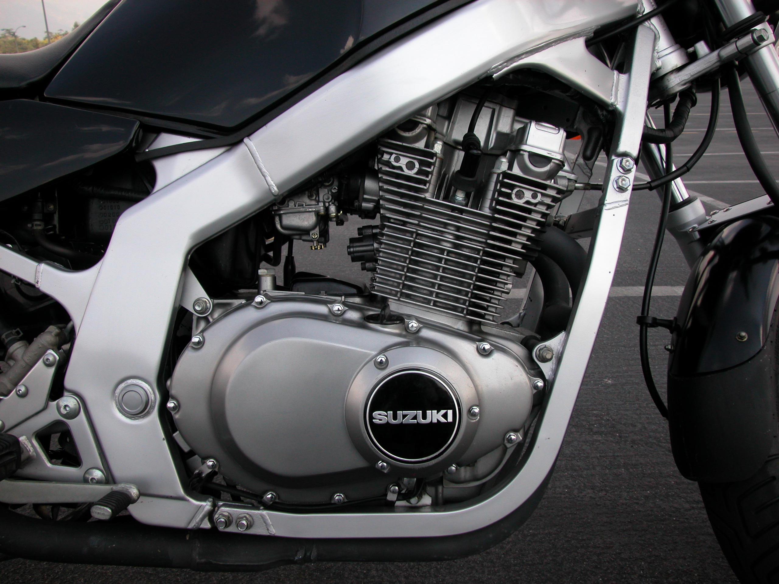 1997 Suzuki GS500E engine. The camera used is a Nikon Coolpix 5000.